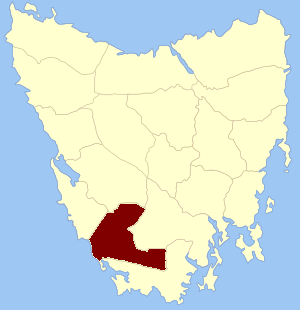 Location of the land district (formerly county) within Tasmania.